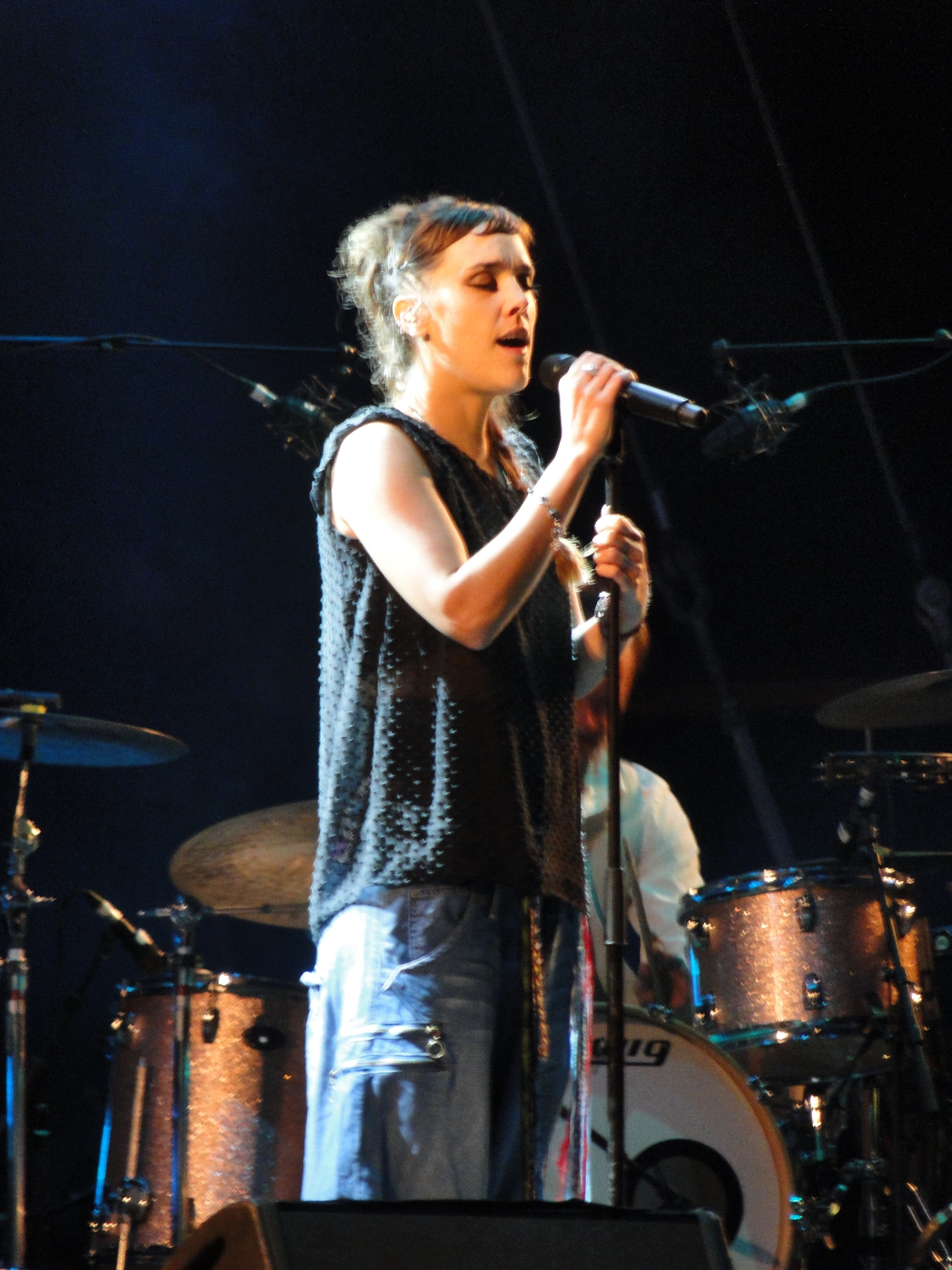 Zaz at "Hamburger Kultursommer", Germany, 2011